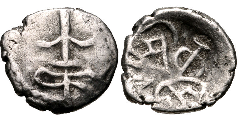 Kalachuri Feudatories in Malwa and Vidarbha, King Kalahasila Circa AD 575-610. AR Fractional Drachm (10mm, 0.53 g, 6h). Ribboned tree / sri kalahasila in Brahmi around.